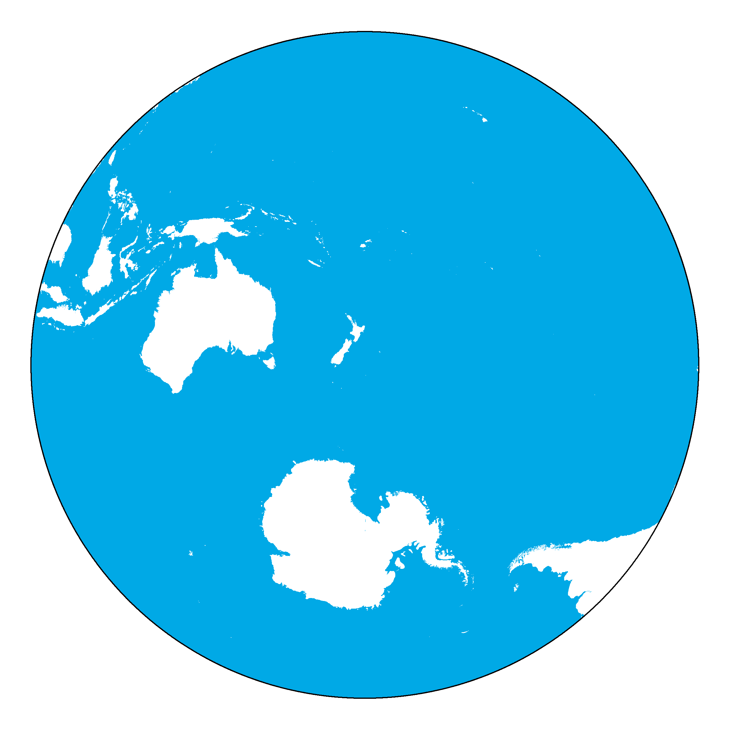 The water hemisphere. Equal-area projection.